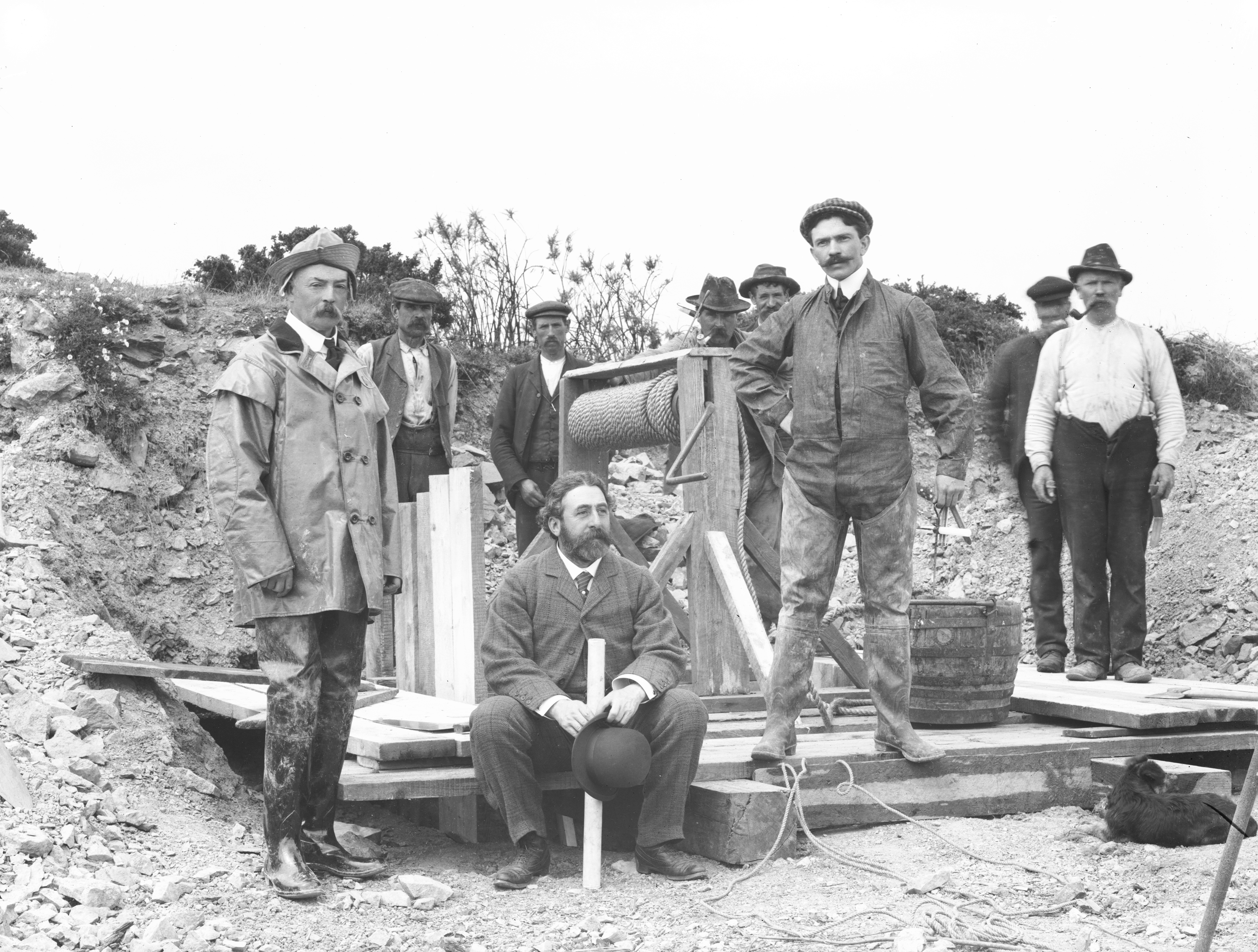 We've met Mr Meardon before at various dates in June 1906. He was owner/manager of Bunmahon/Bonmahon Copper Mines in Co. Waterford, and looks particularly impressive here with his rolled up plans and thoughtful expression - dreaming of establishing diamond mines in far-off places perhaps... A Mr Jackson also appears in this photograph, presumably the chap in the full sou'wester gear? Anyway, I liked this one for the winch, the early 20th century workwear, and the weird object in the hand of the chap in the thigh-high rubber galoshes. Anyone any ideas as to what it is? (appears to be a compass, man to the right may be holding a square) Date: Wednesday, 6 June 1906 NLI Ref.: P_WP_1560